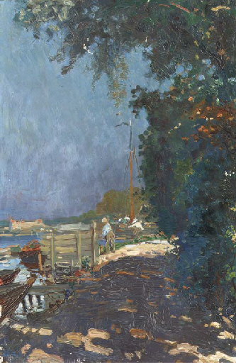 Boats along the shore. Signed and dated Leo Gestel/'08, oil on panel, 36 x 24 cm